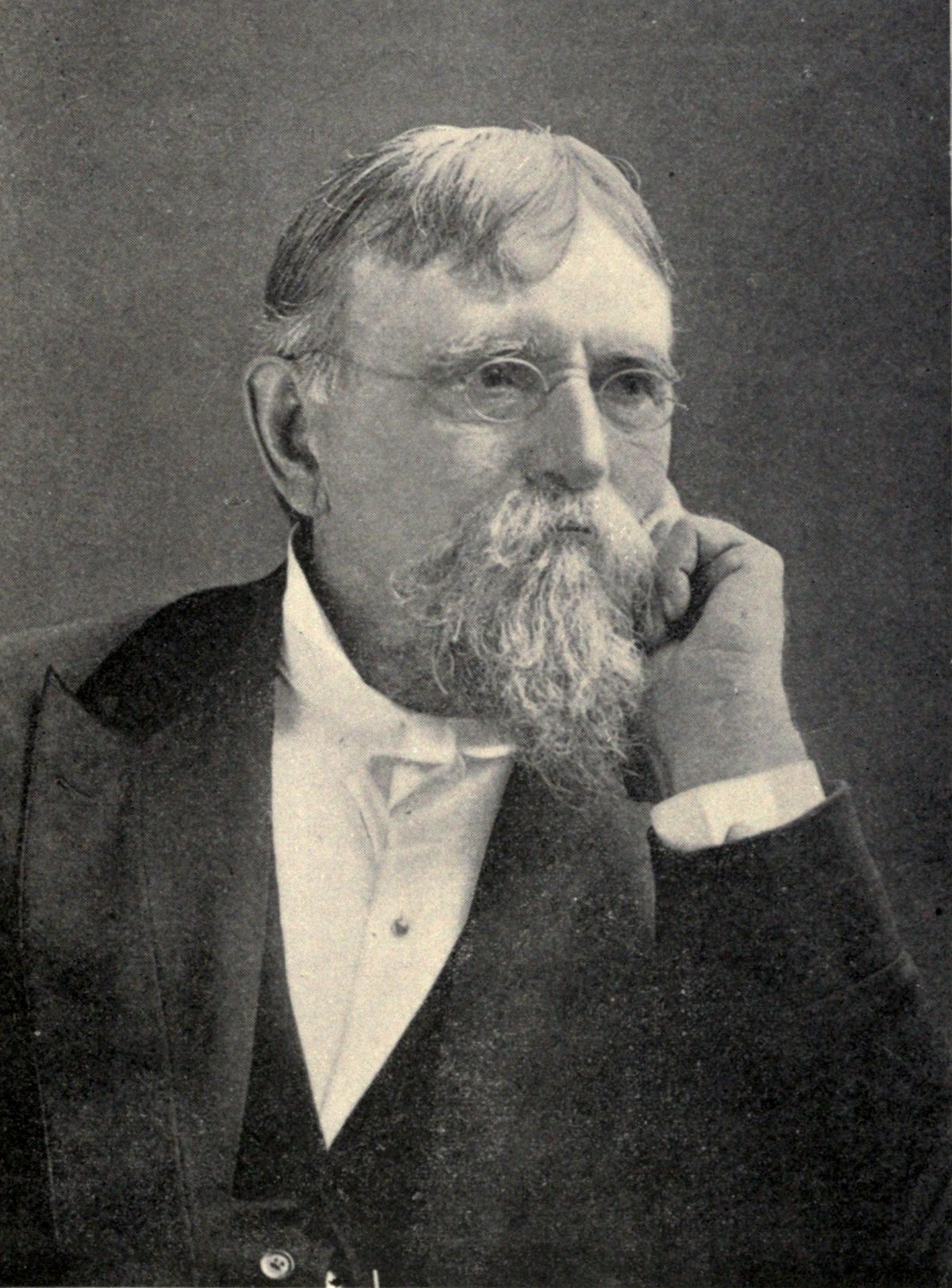 Lew Wallace